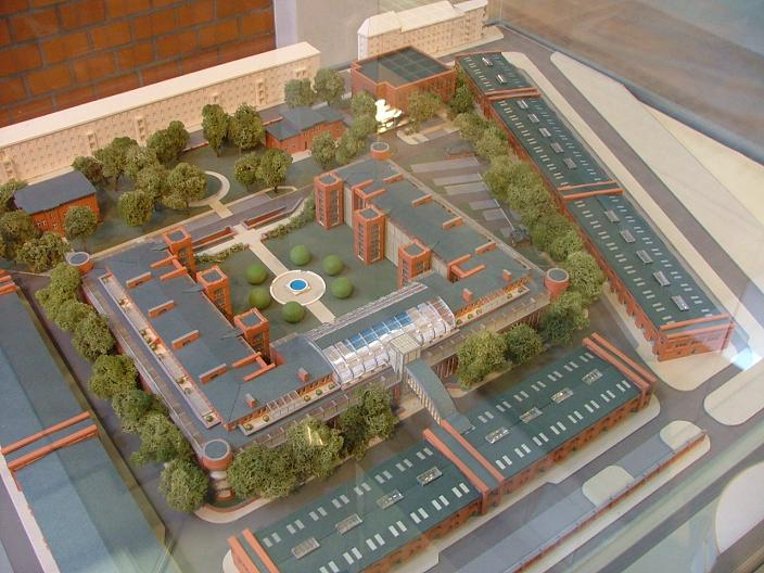 Model of City Park District - Poznan.